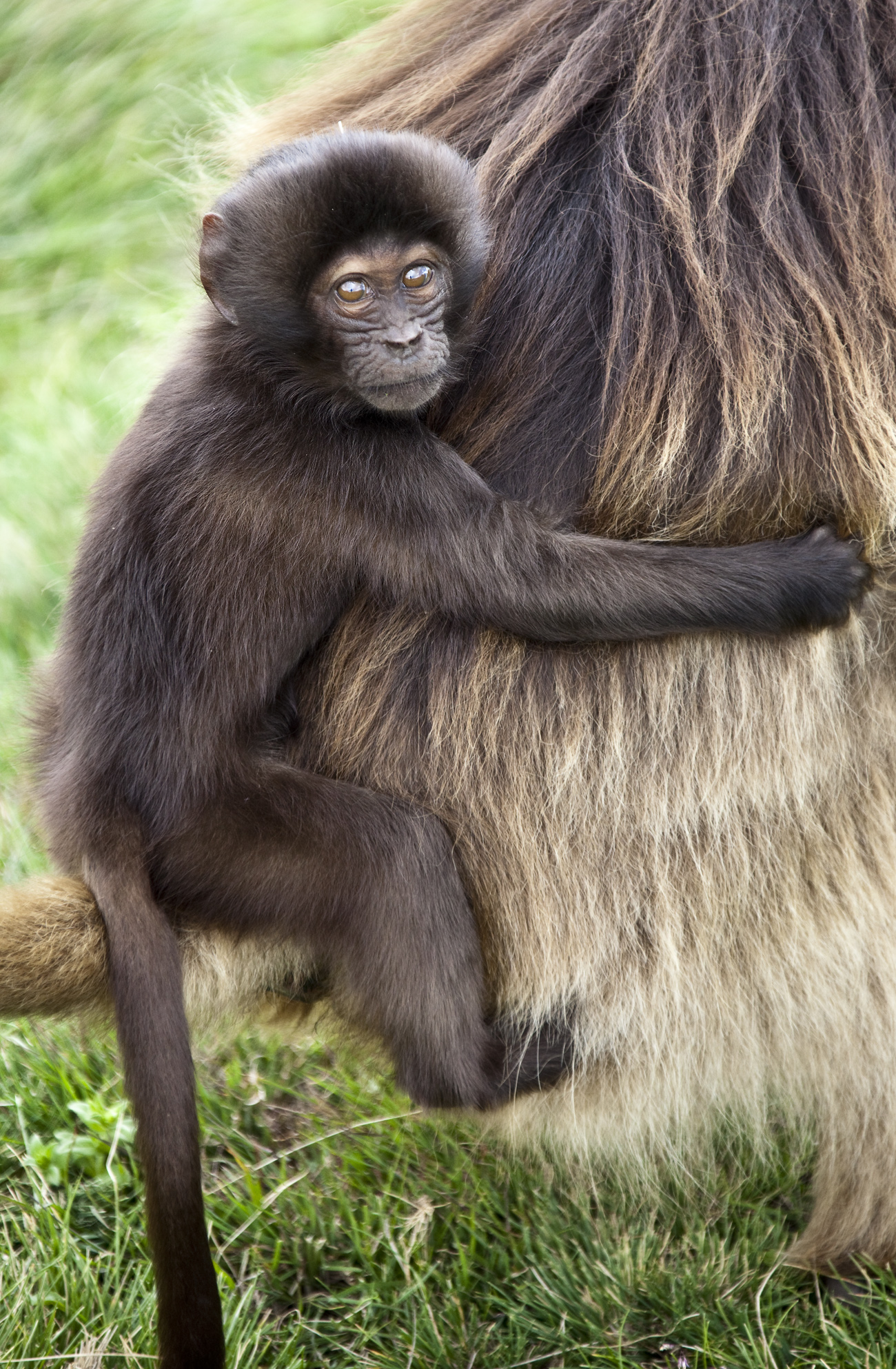 Baby Gelada, Semien Mountains National Park